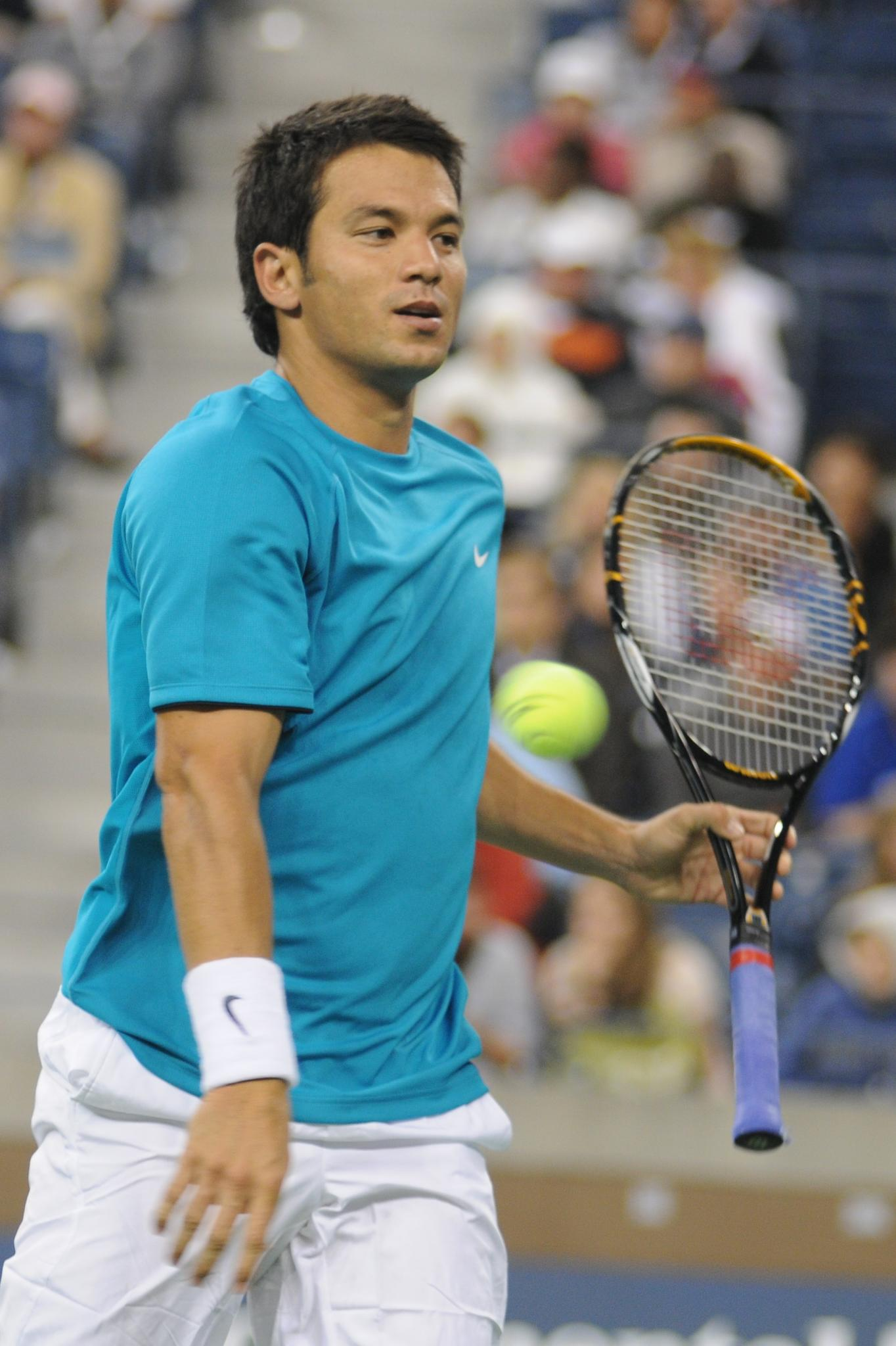 Björn Phau at the 2009 US Open